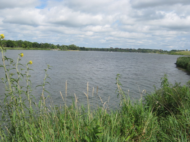 Lake Vermillion in McCook County, South Dakota (near Canistota; part of the state's Lake Vermillion Recreation Area)